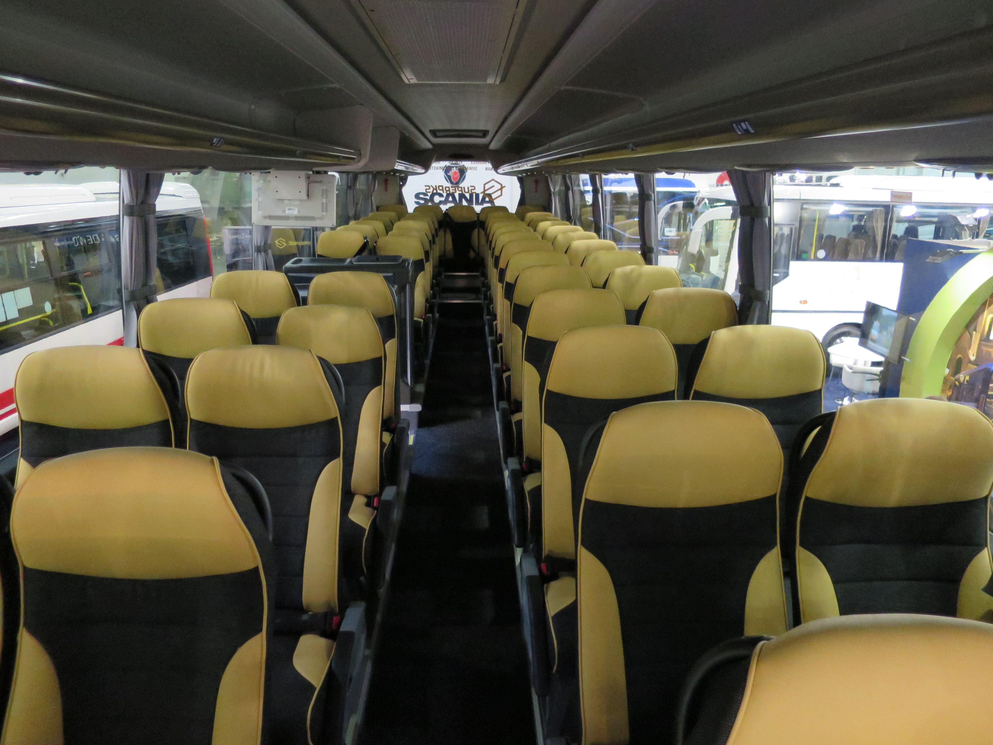 The making of this document was supported by Wikimedia Polska Association, within Wikigrant no. WG 2016-45. Scania Touring Super PKS